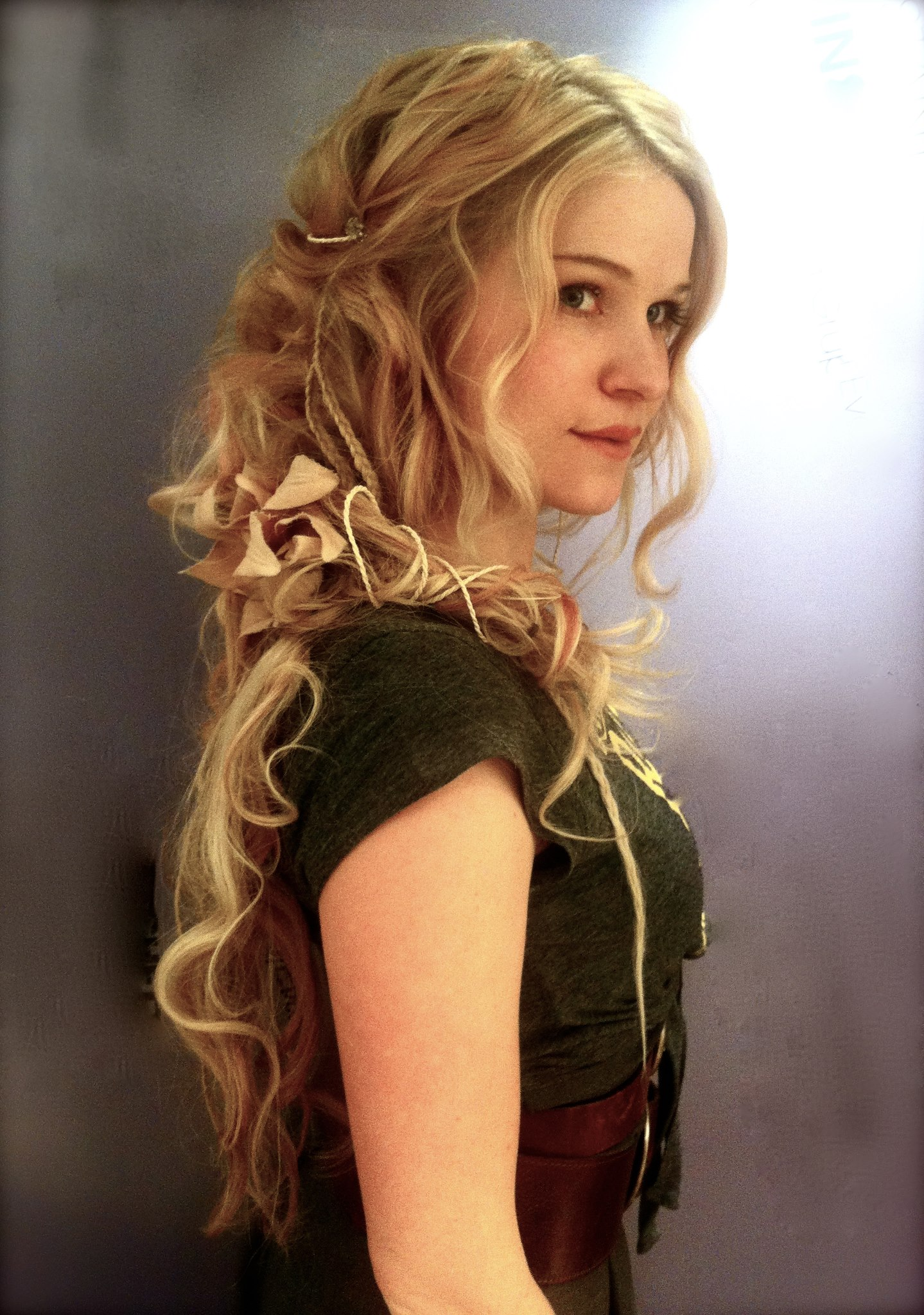 Depicted person: Solveig Heilo